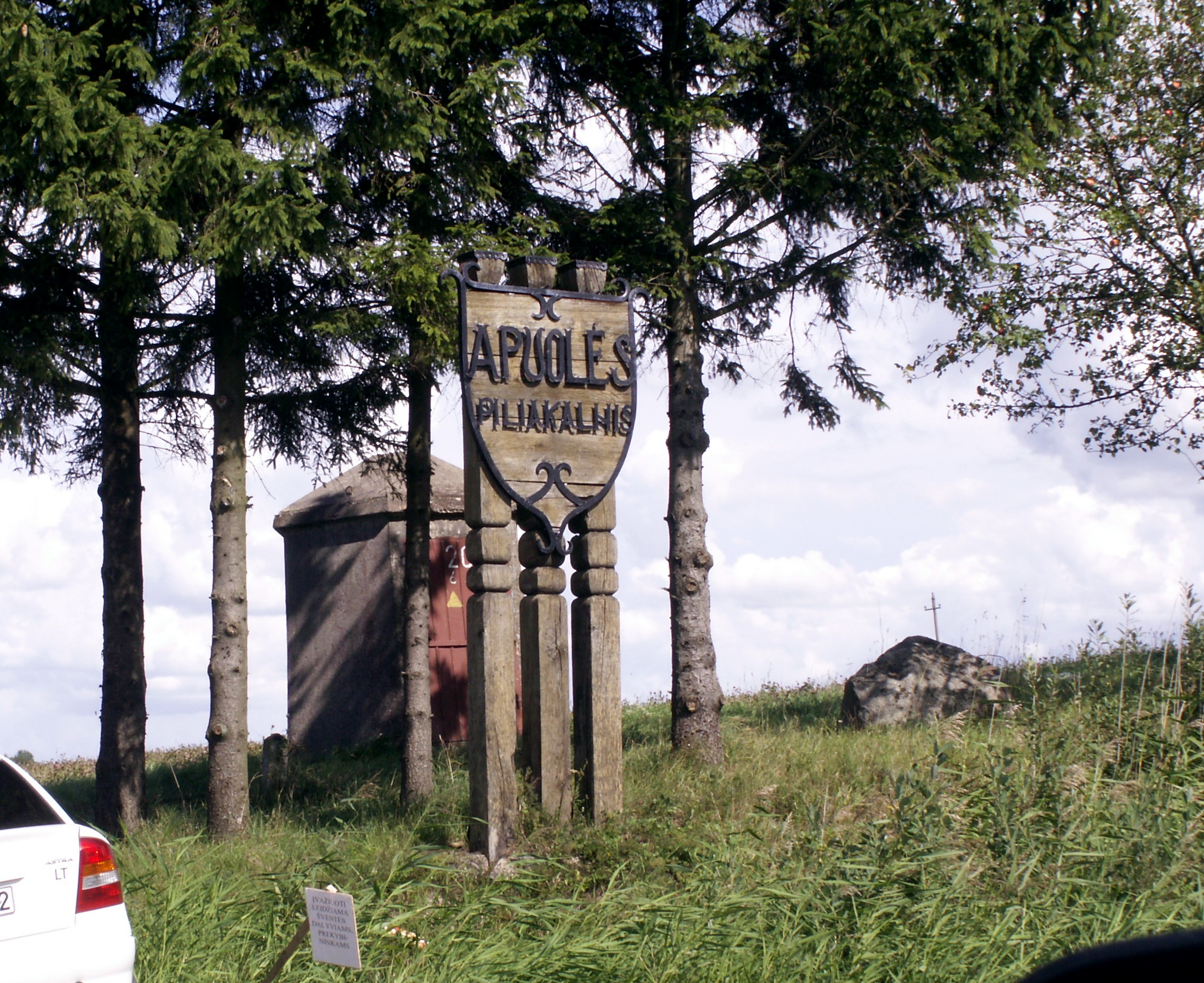 Apuolė hillfort, Skuodas district, Lithuania